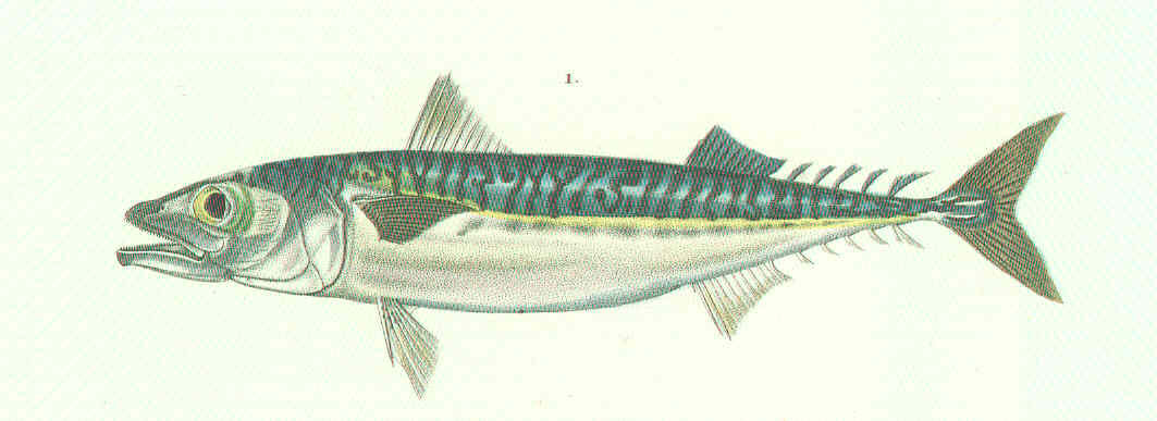 Scomber colias Subject: Chub mackerel Tag: Fish